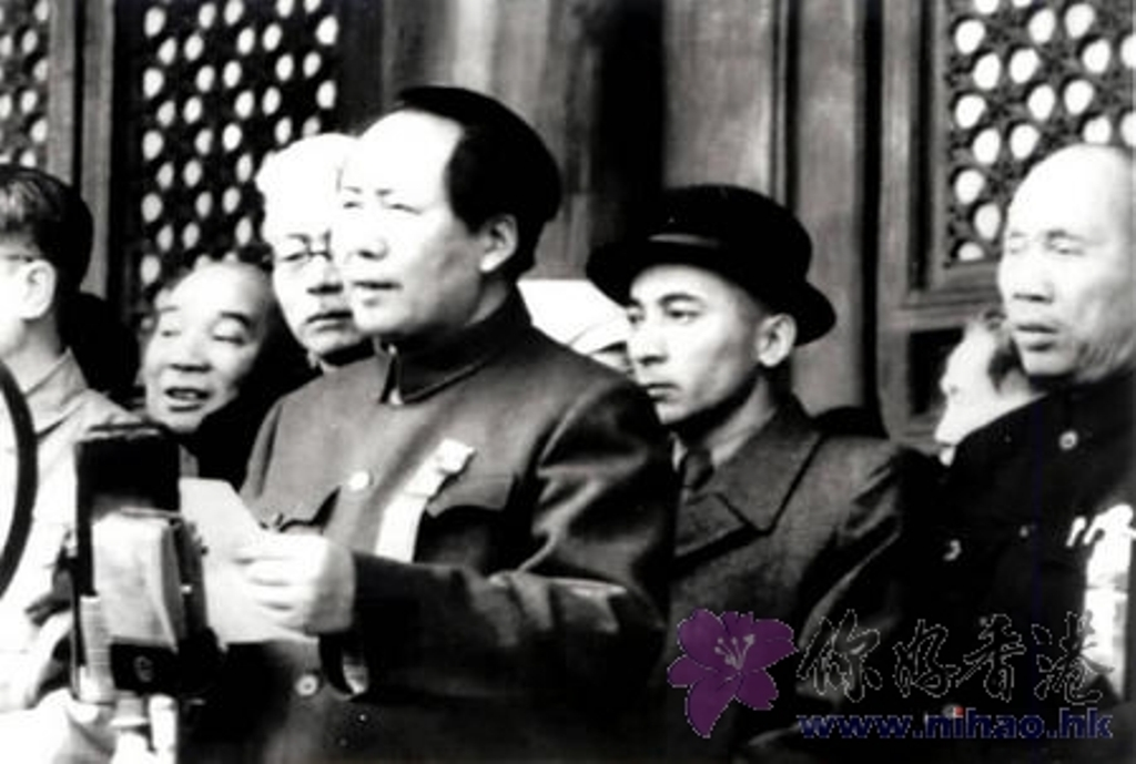 Founding Ceremony of People's Republic of China. From right: Dong Biwu, Saifuddin Azizi, Mao Zedong, Lin Boqu.